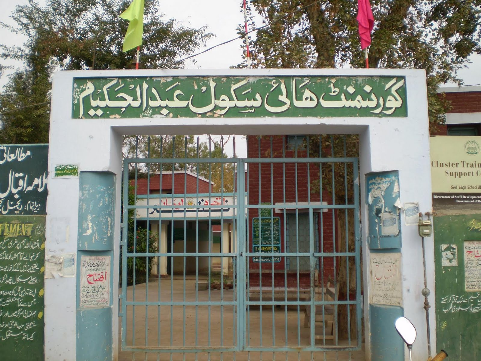 This is the Main Gate of Government High School Abdul Hakim, in Kabirwala Tehsil. This image has been donated by Umar Farooq Miana. Regards to SIR Muhammad Arshid Nadeem.